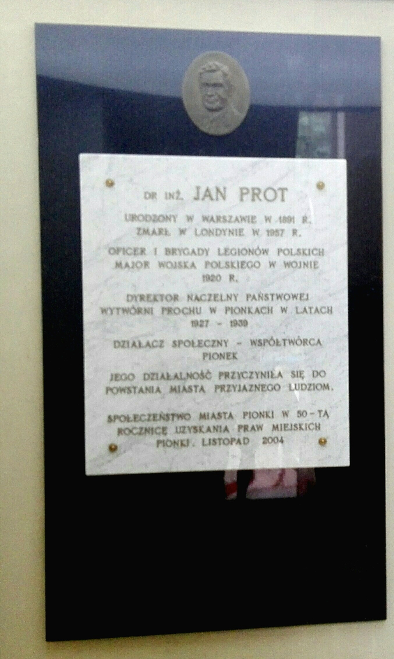 Memorial plaque Jan Prot in Pionki, Poland